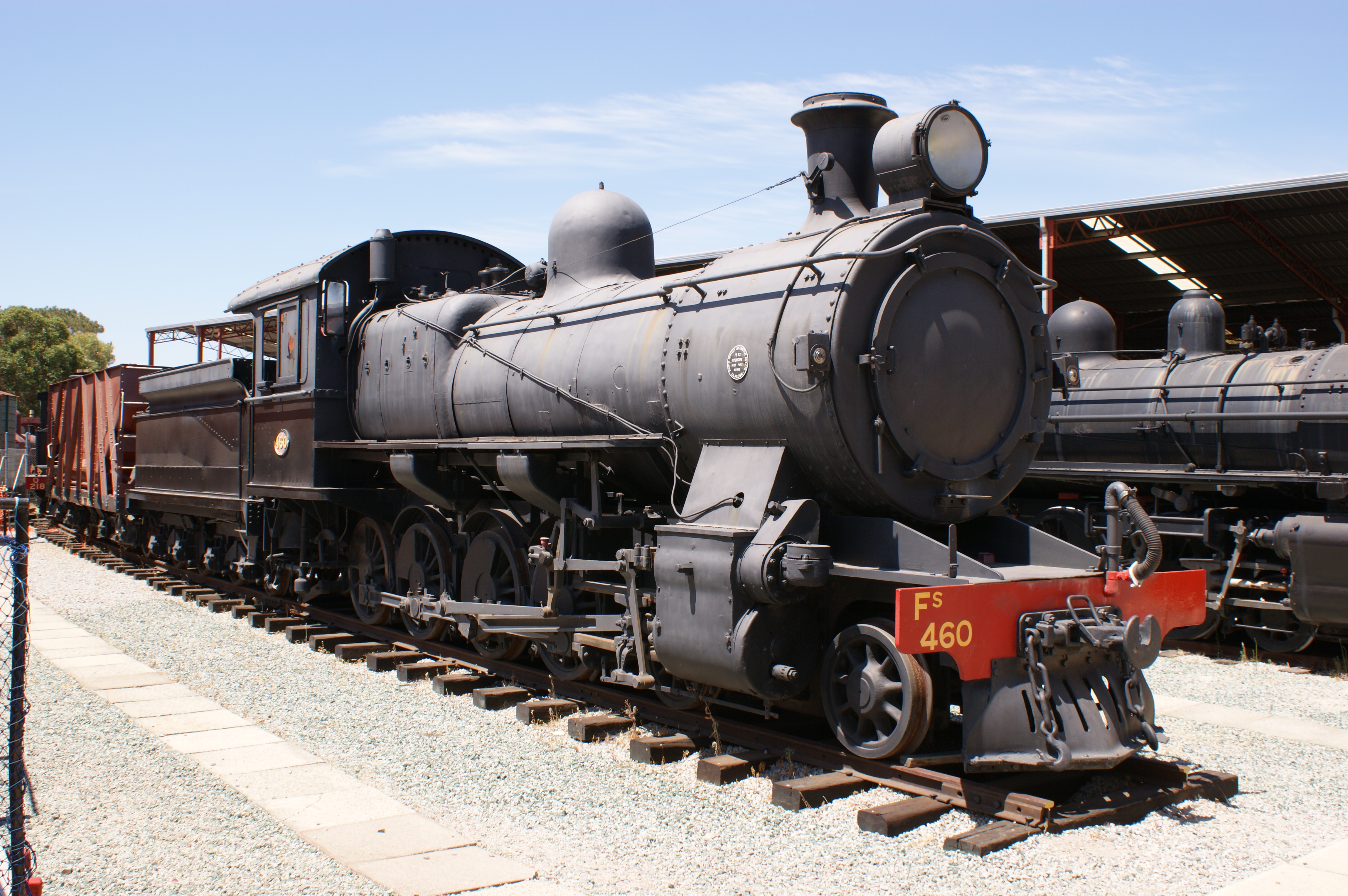 WAGR "Fs" 4-8-0 (North British 20076/1913), now restored. 2/10